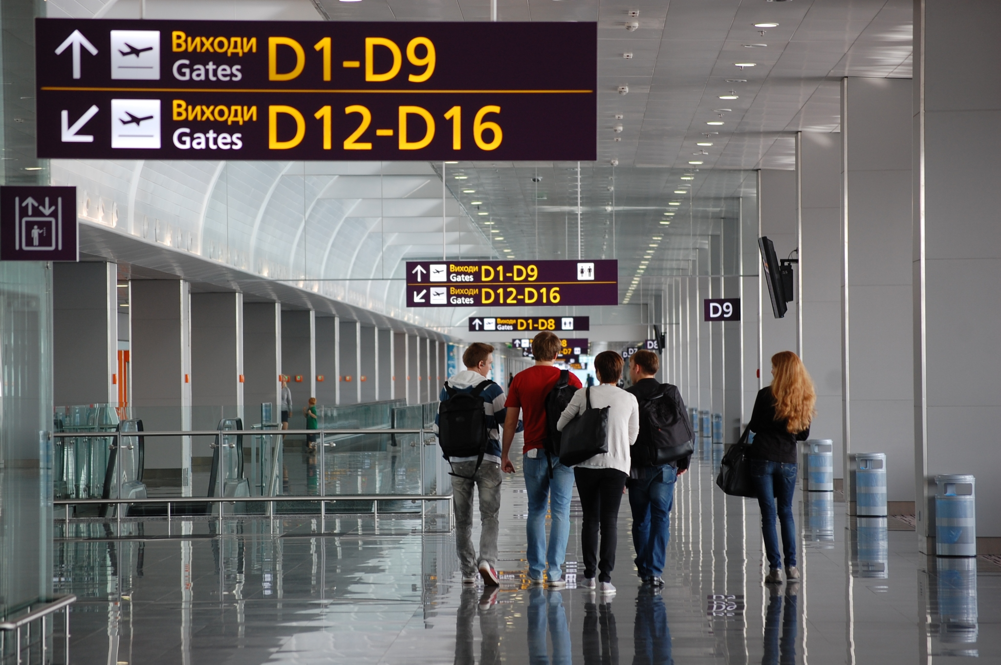 Boryspil airport, Terminal D, Kyiv, Ukraine